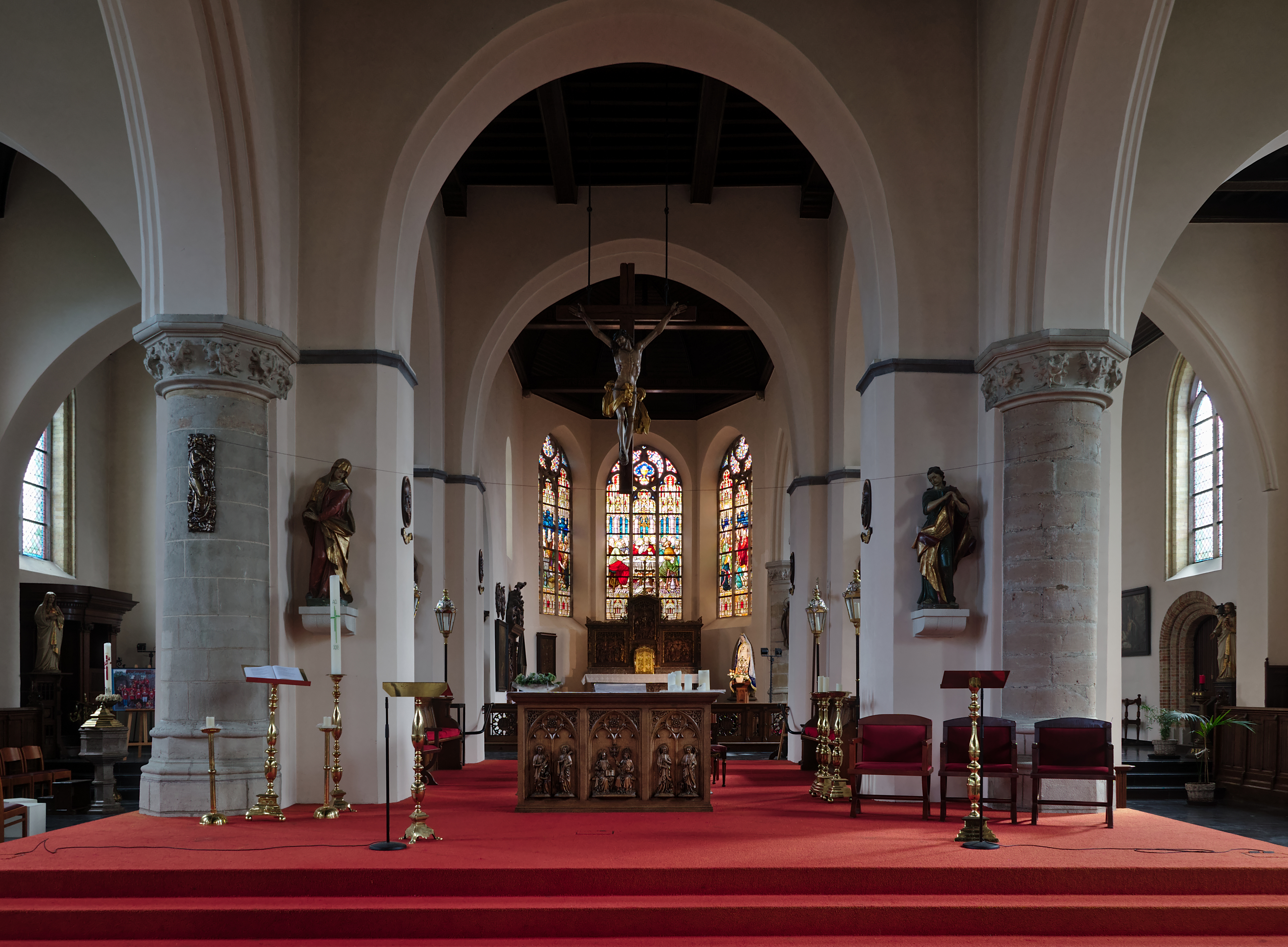 Interior of Onze-Lieve-Vrouwkerk in Pittem, Belgium This photo of immovable heritage has been taken in the Flemish Region